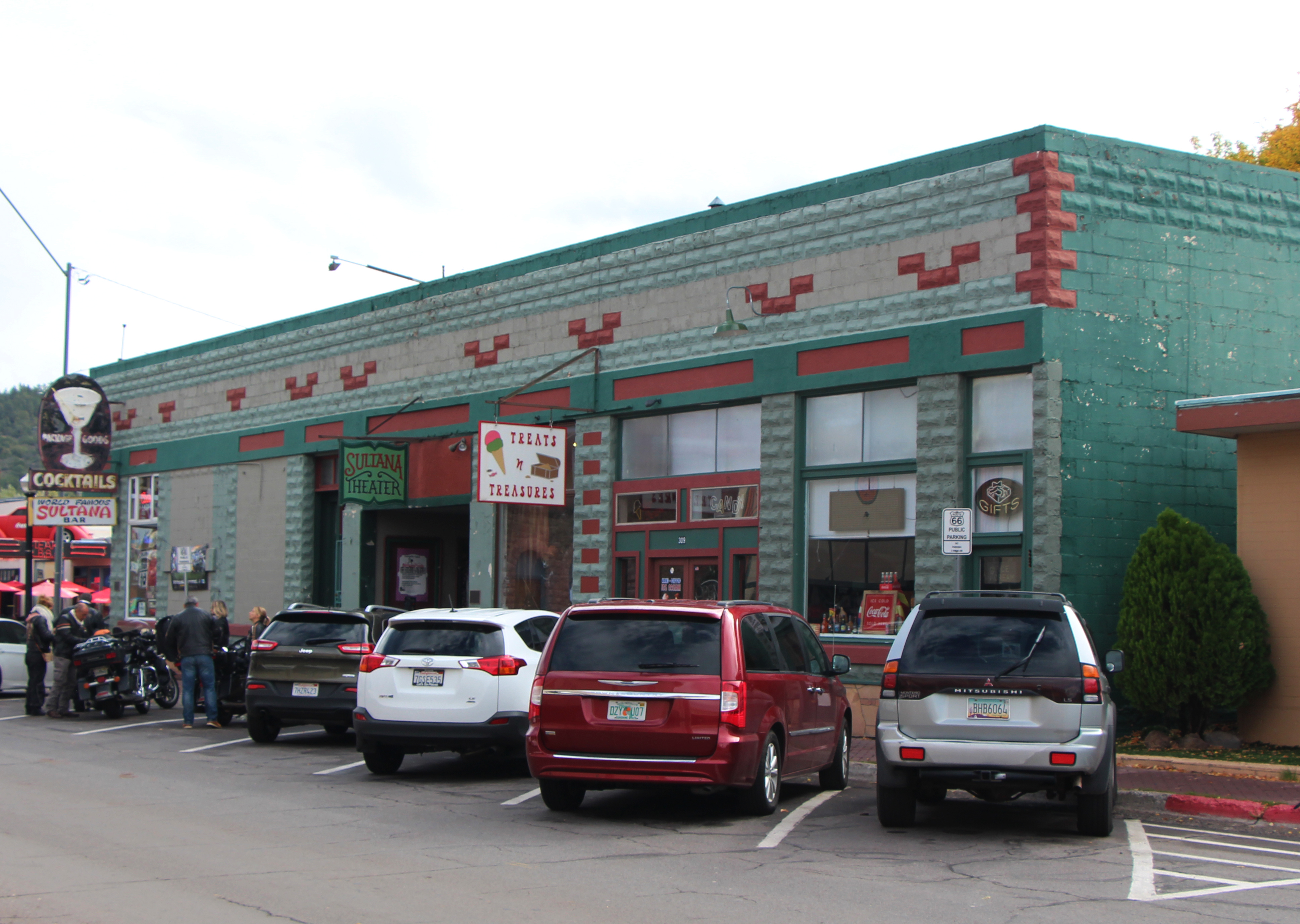 Sultana Theatre, 301 W. Route 66, Williams, AZ